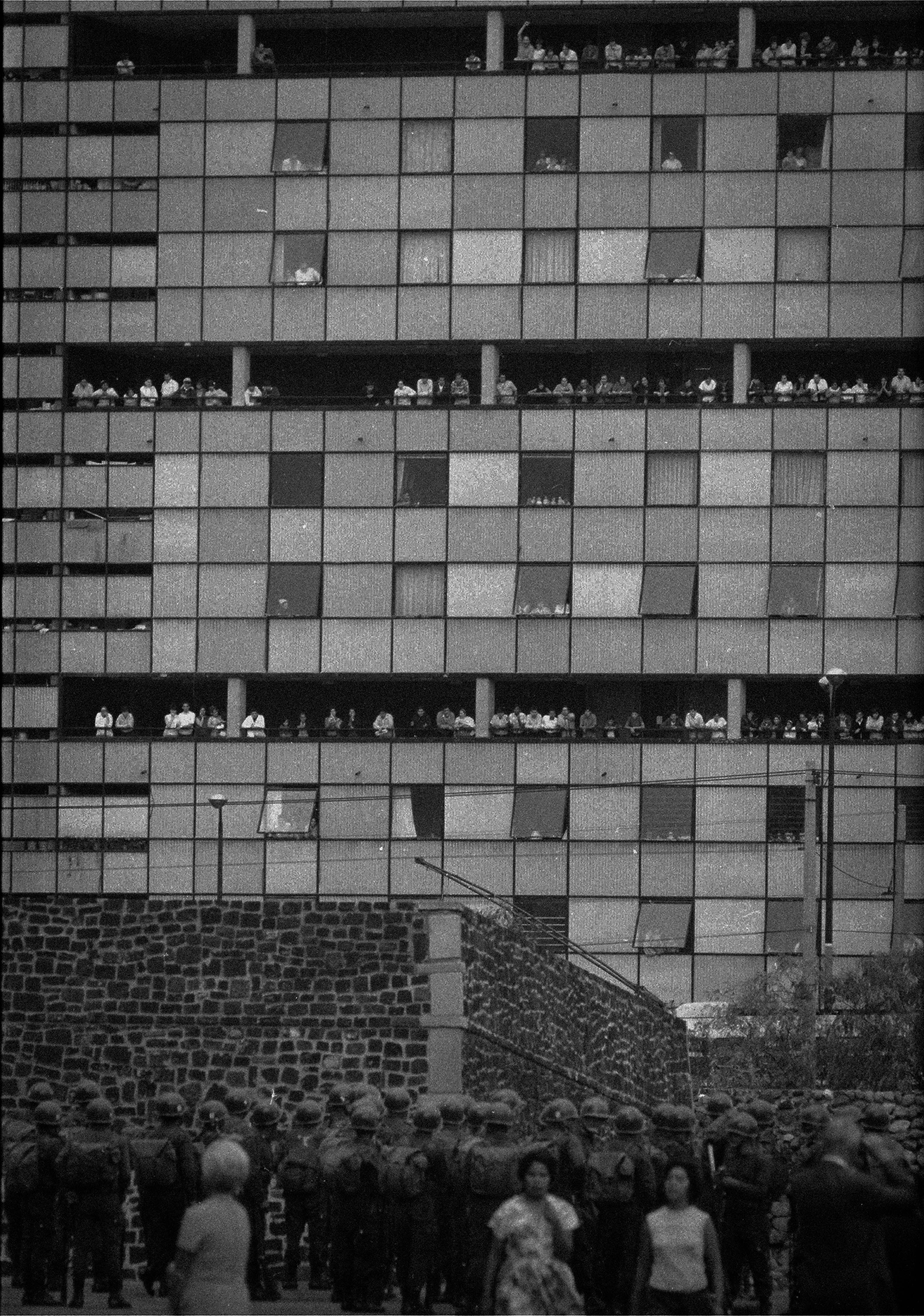 Images of Mexico City Student Movement, October 1968.